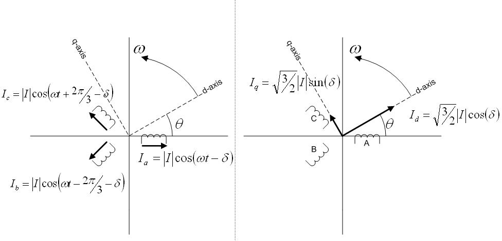 graphical depiction of the dqo (Park's) transformation